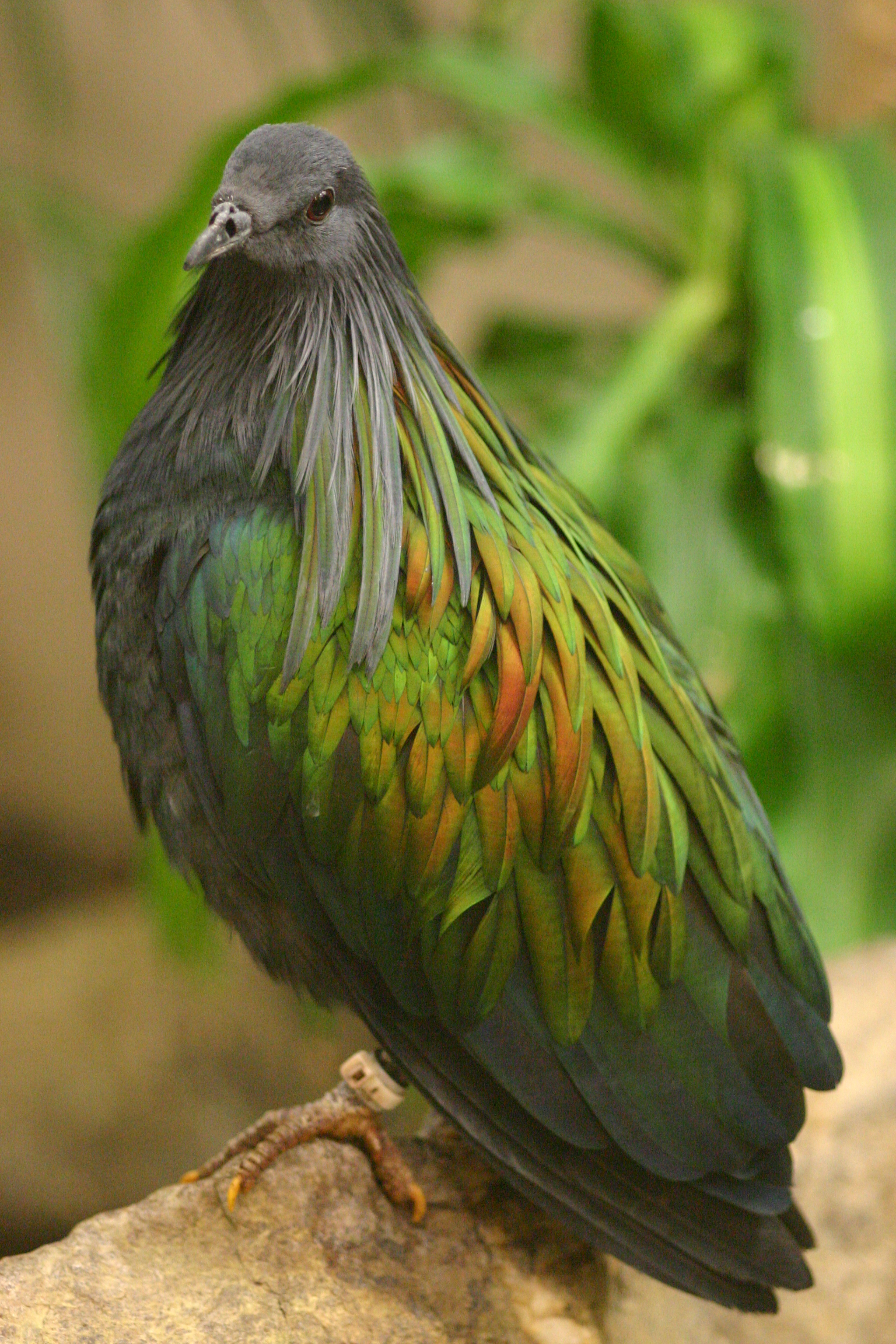 Brian Gratwicke - Nat Zoo, DC